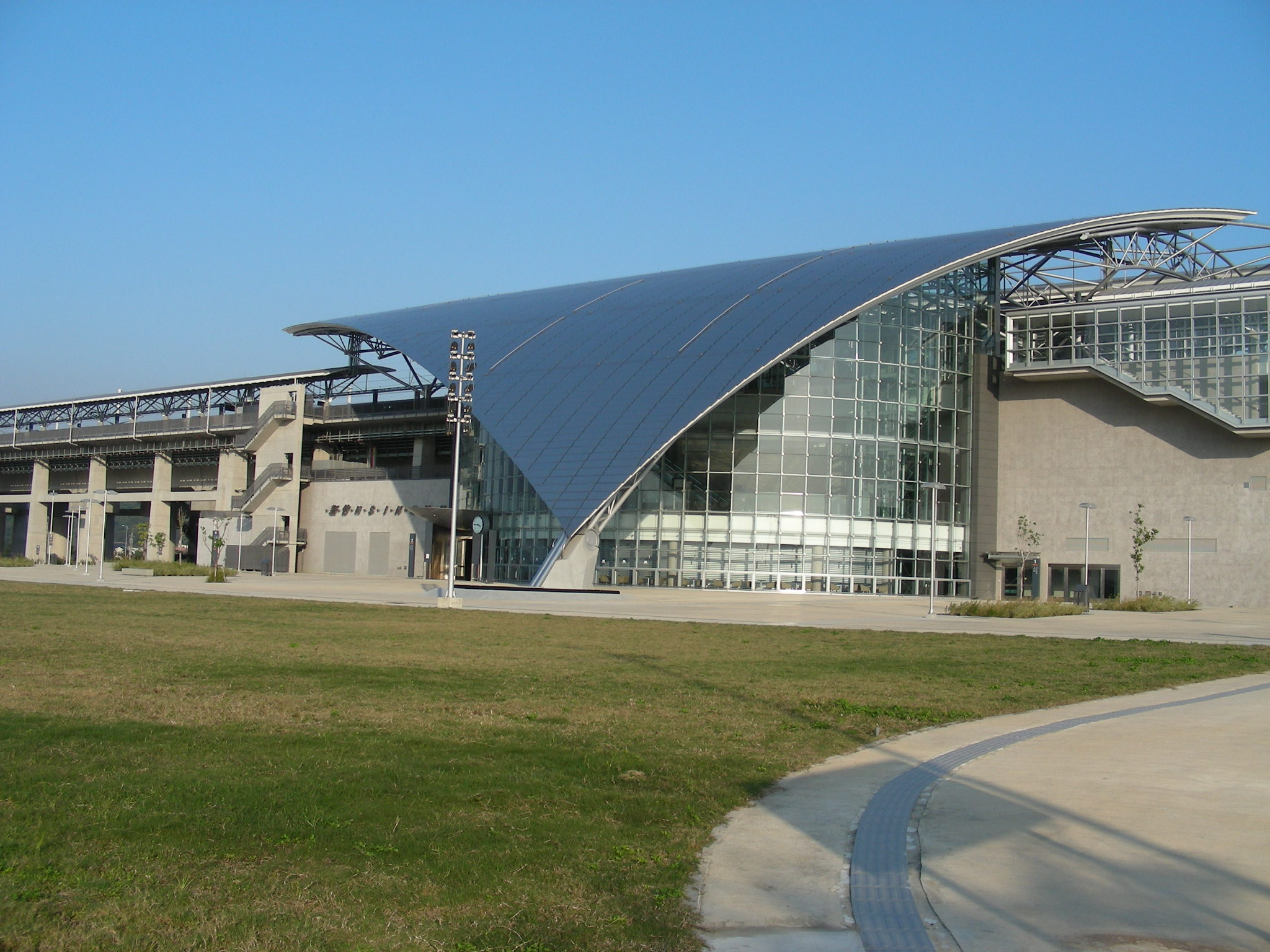 Taiwan HSR(High Speed Rail) Hsinchu Station